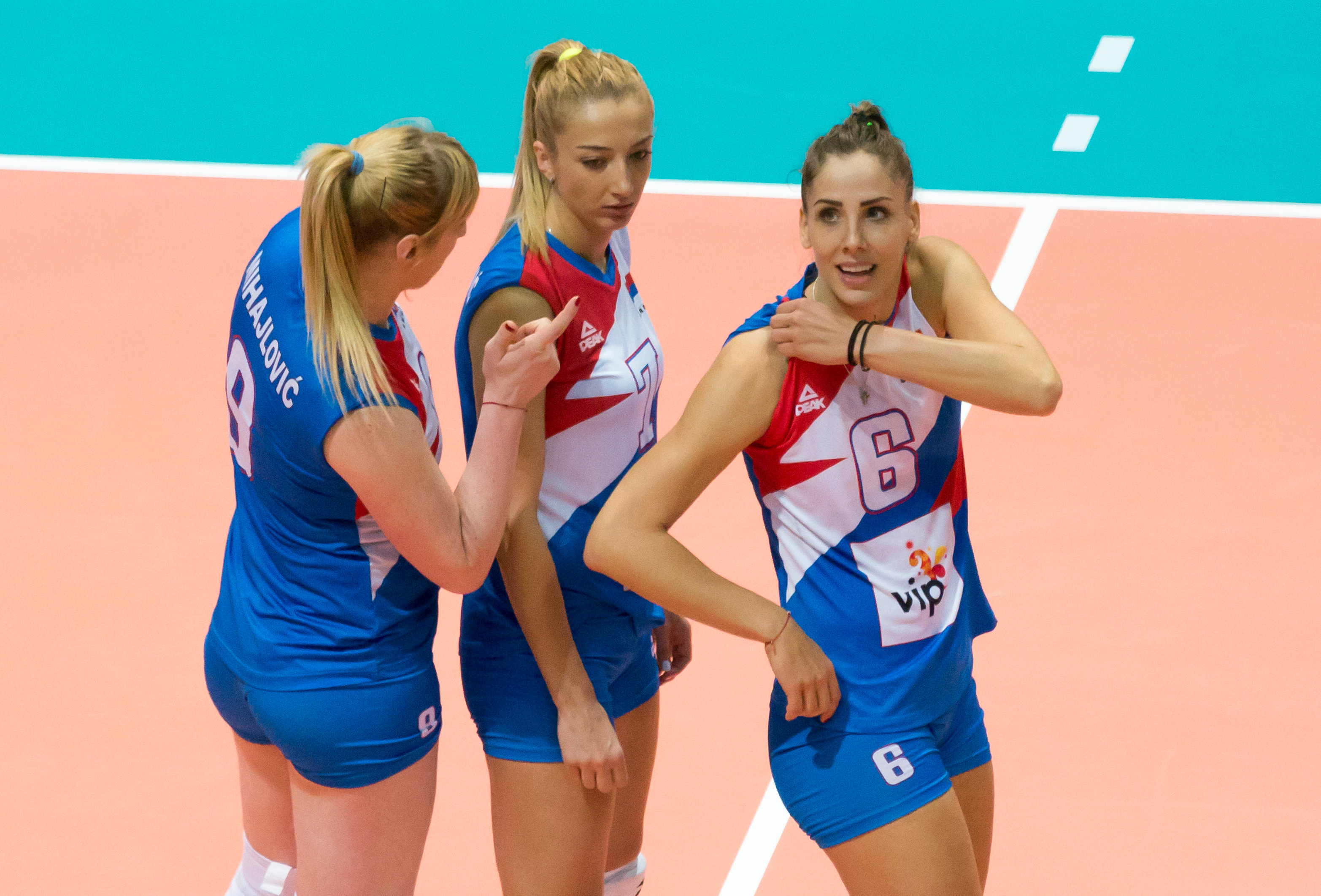 Brankica Mihajlović-Ana Antonijević-Tijana Malešević (team Serbia), GP in Hong Kong 2017